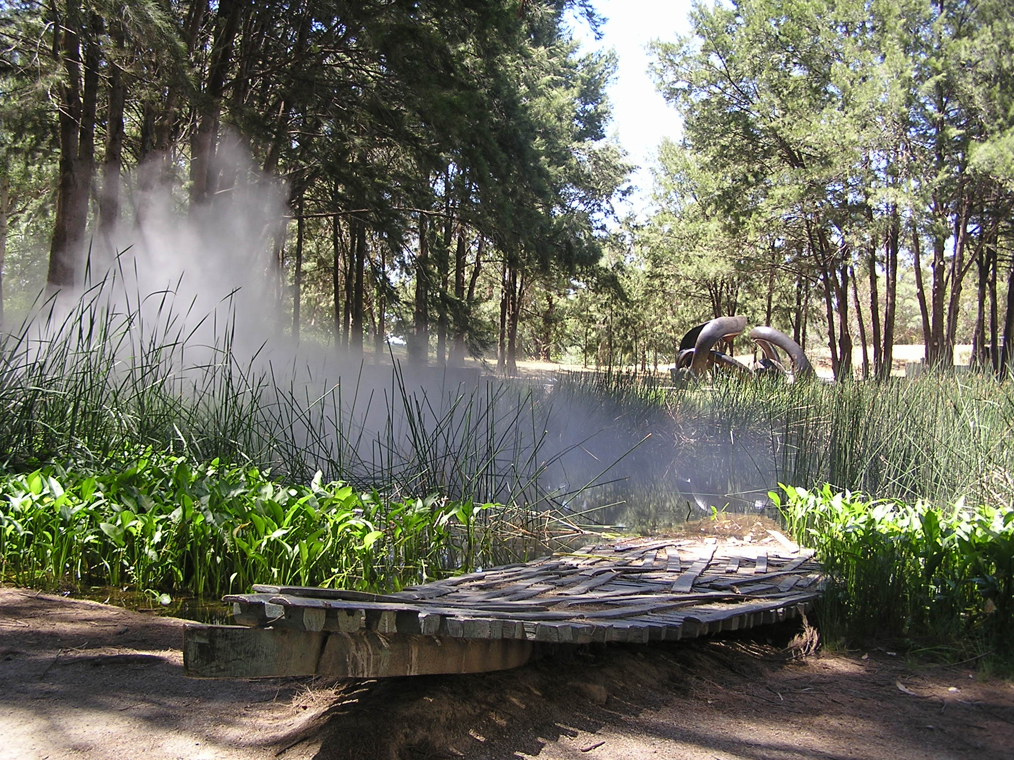 Fog sculpture, also known as Gas sculpture, at the National Gallery of Australia, Canberra. Each day noon to 2 pm and on the foreground On the beach again by Robert Stackhouse Photo taken by Black Squirrel